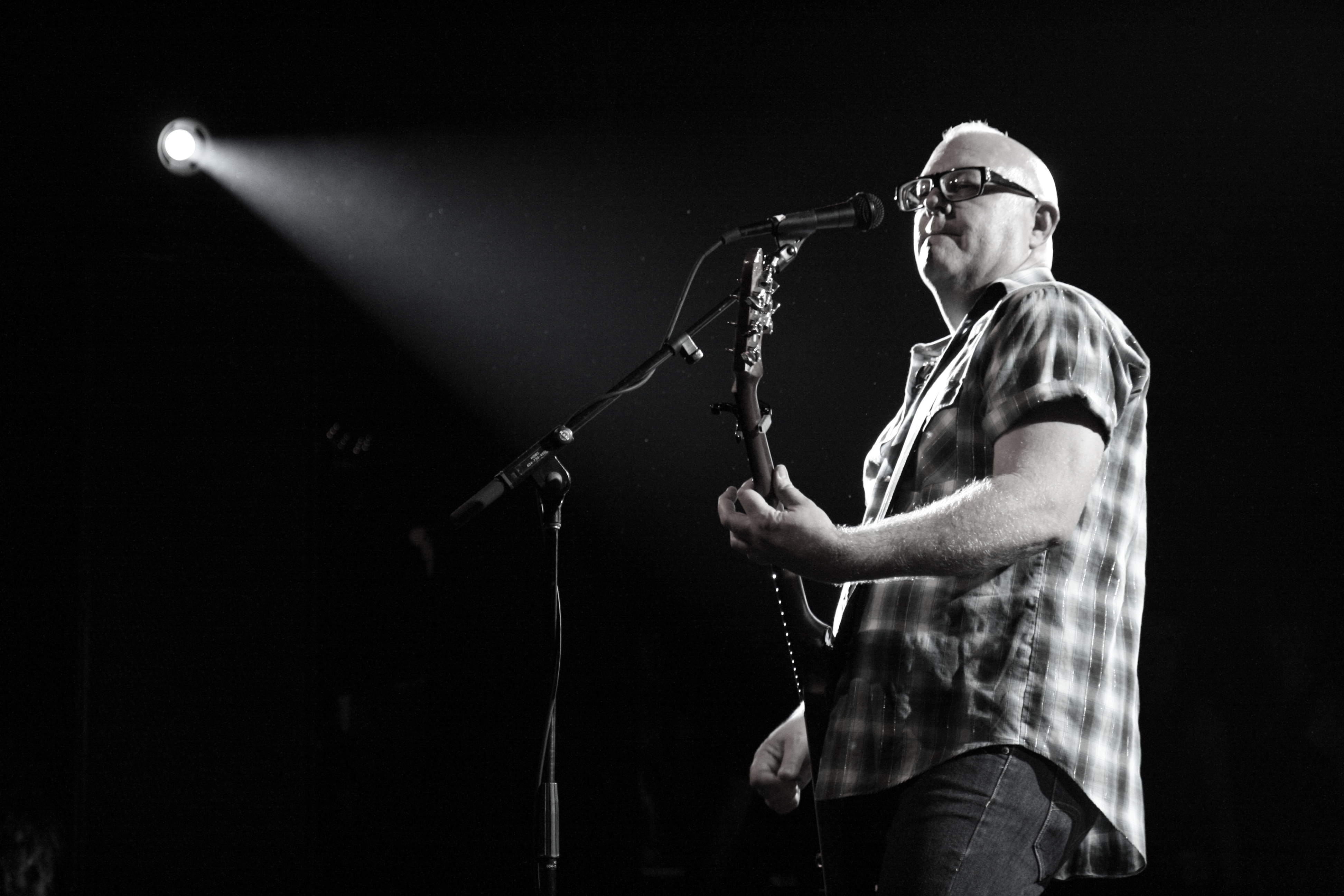 Dave Catching playing with the Eagles of Death Metal at the Commodore Ballroom July 20th 2009